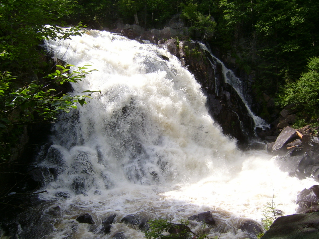 Falls of devil (Chute du diable) in Mont-Tremblnat park (Quebec-Canada).